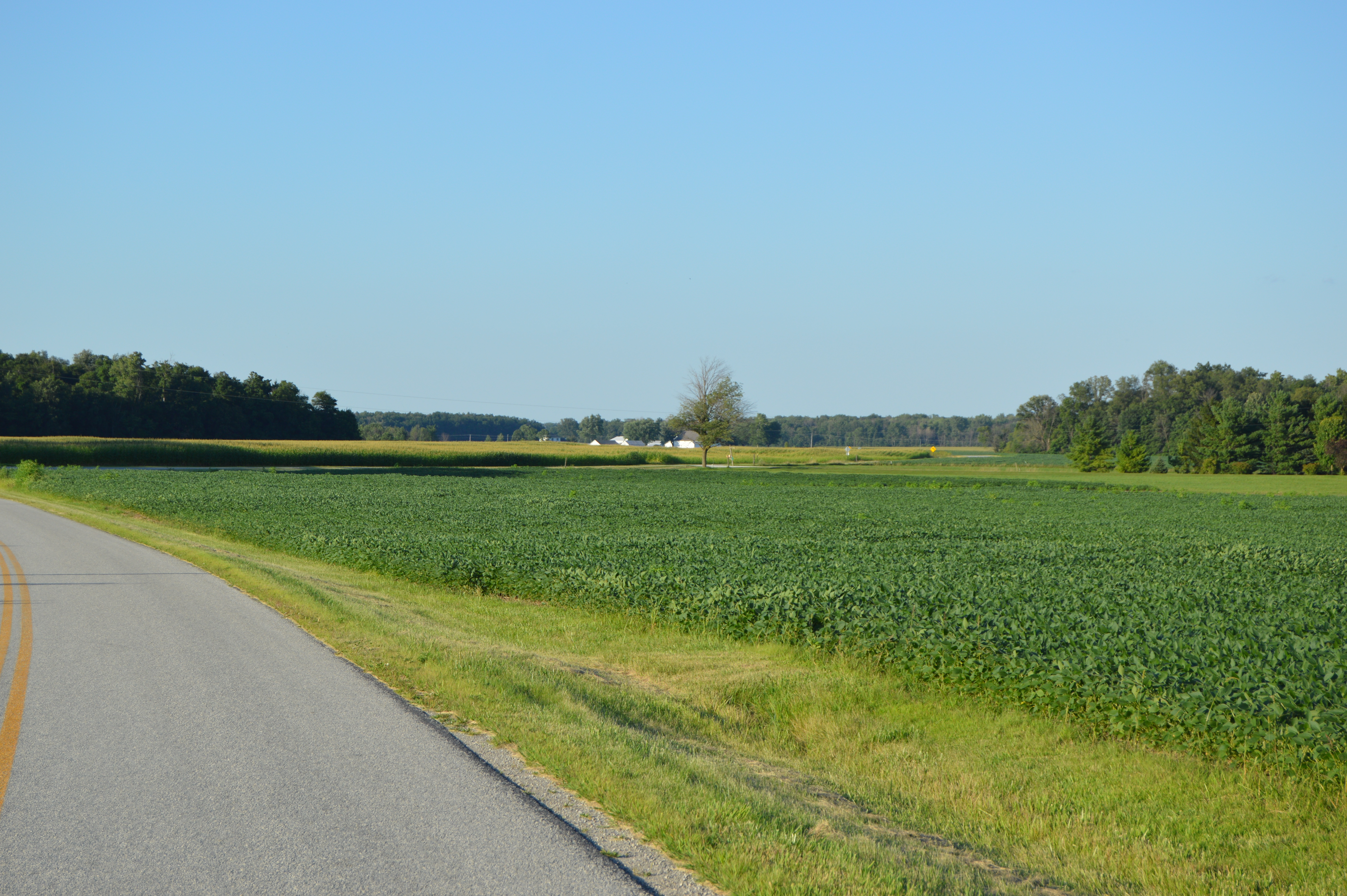 Fields along Moulton-New Knoxville Road northeast of New Knoxville in Washington Township, Auglaize County, Ohio, United States.